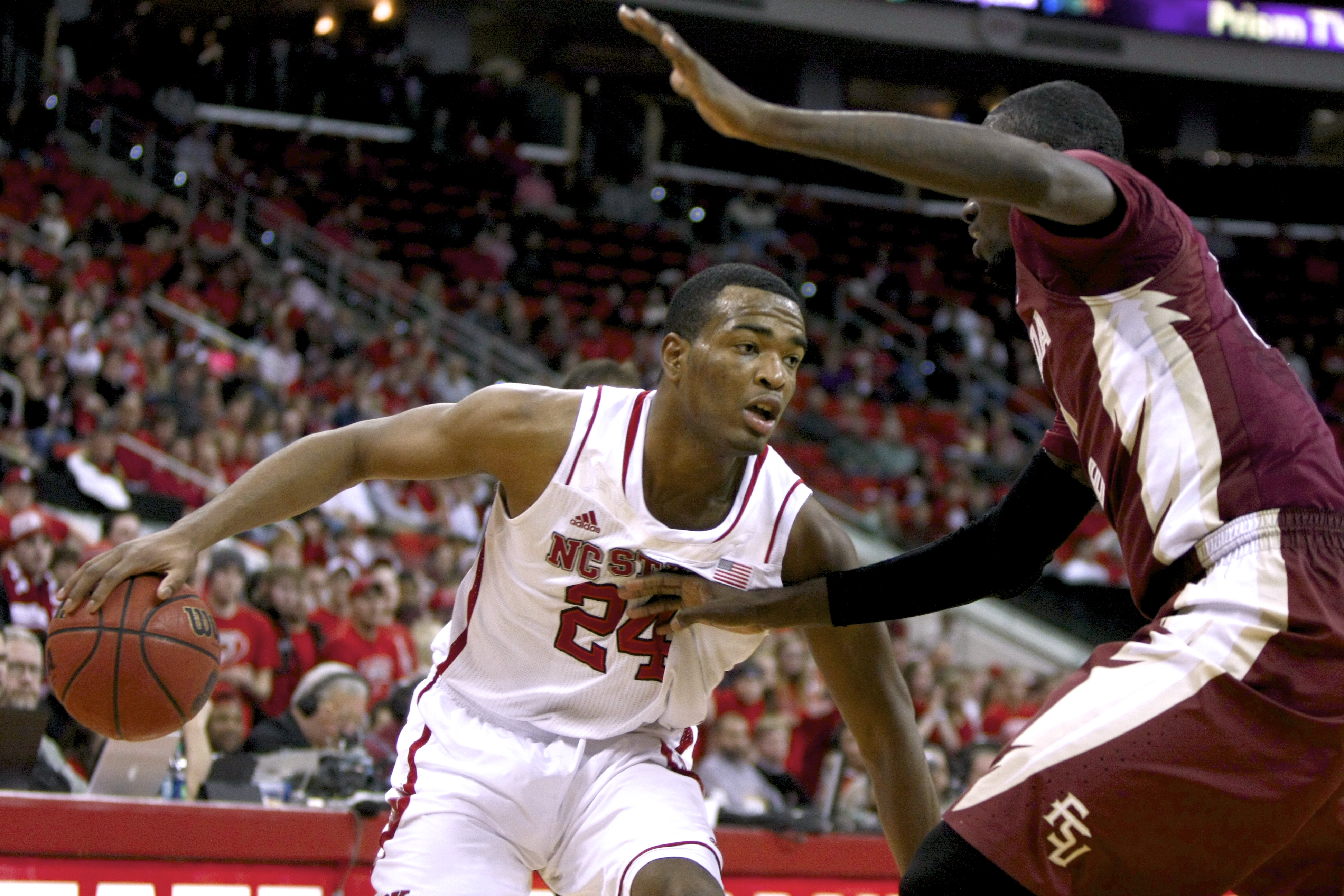 T.J. Warren (24) drives against Okaro White (10). NC State defeated Florida State 74-70 on January 29, 2014 at the PNC Arena in Raleigh, NC. Photo by: Jerome Carpenter